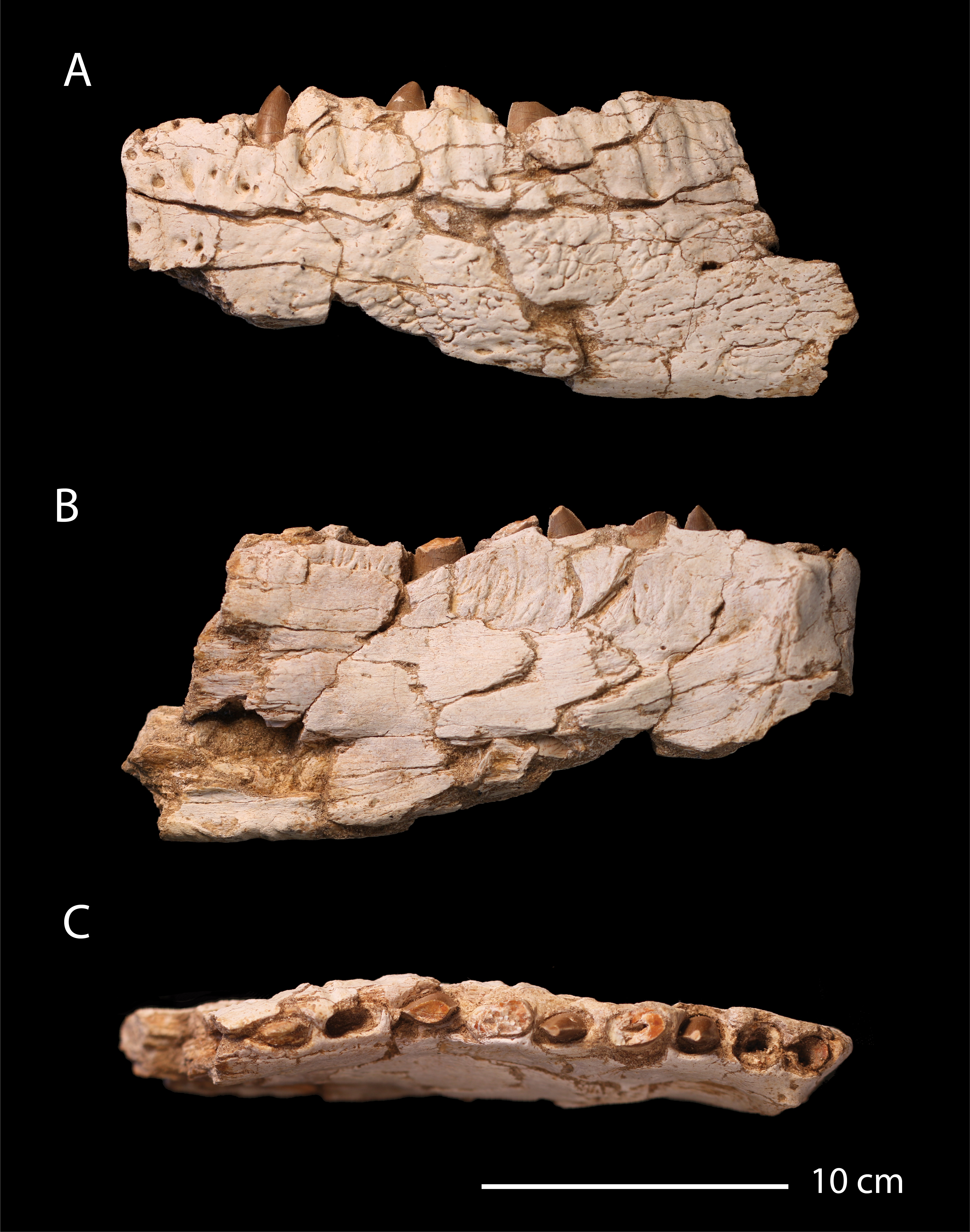 Partial left dentary, holotype of Chenanisaurus barbaricus (Dinosauria: Theropoda: Abelisauridae). From the late Maastrichtian Couche III beds of Sidi Chennane, Ouled Abdoun Basin, Khouribga Province, Morocco, North Africa. Photographs and illustration by Nick Longrich.